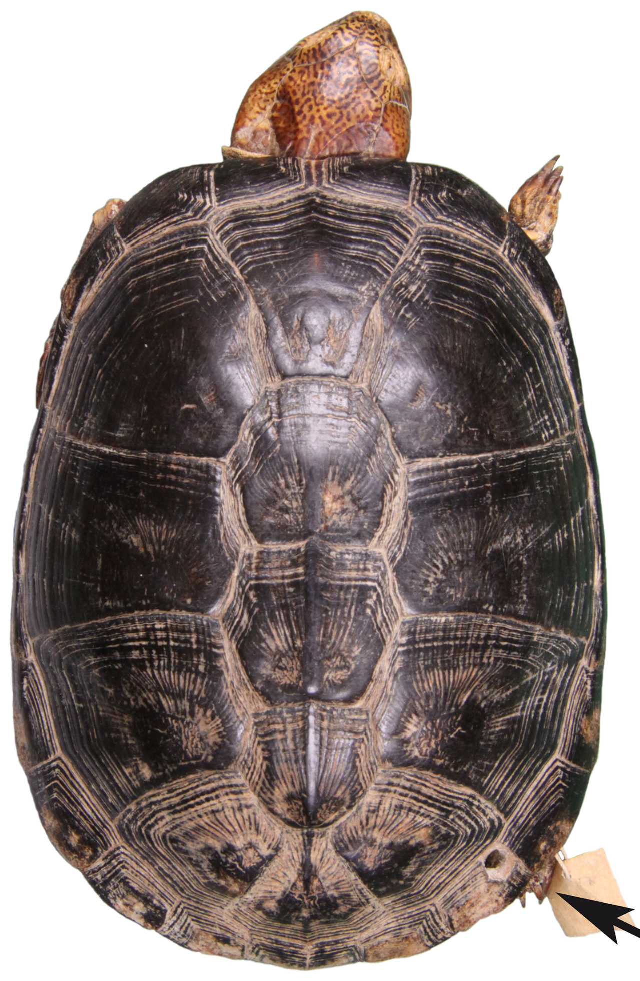 Dorsal aspect of the lectotype of Pelusios seychellensis. Female, Natural History Museum Vienna, Austria (NHMW 13247). The arrow indicates the hole drilled in the shell margin (see text).